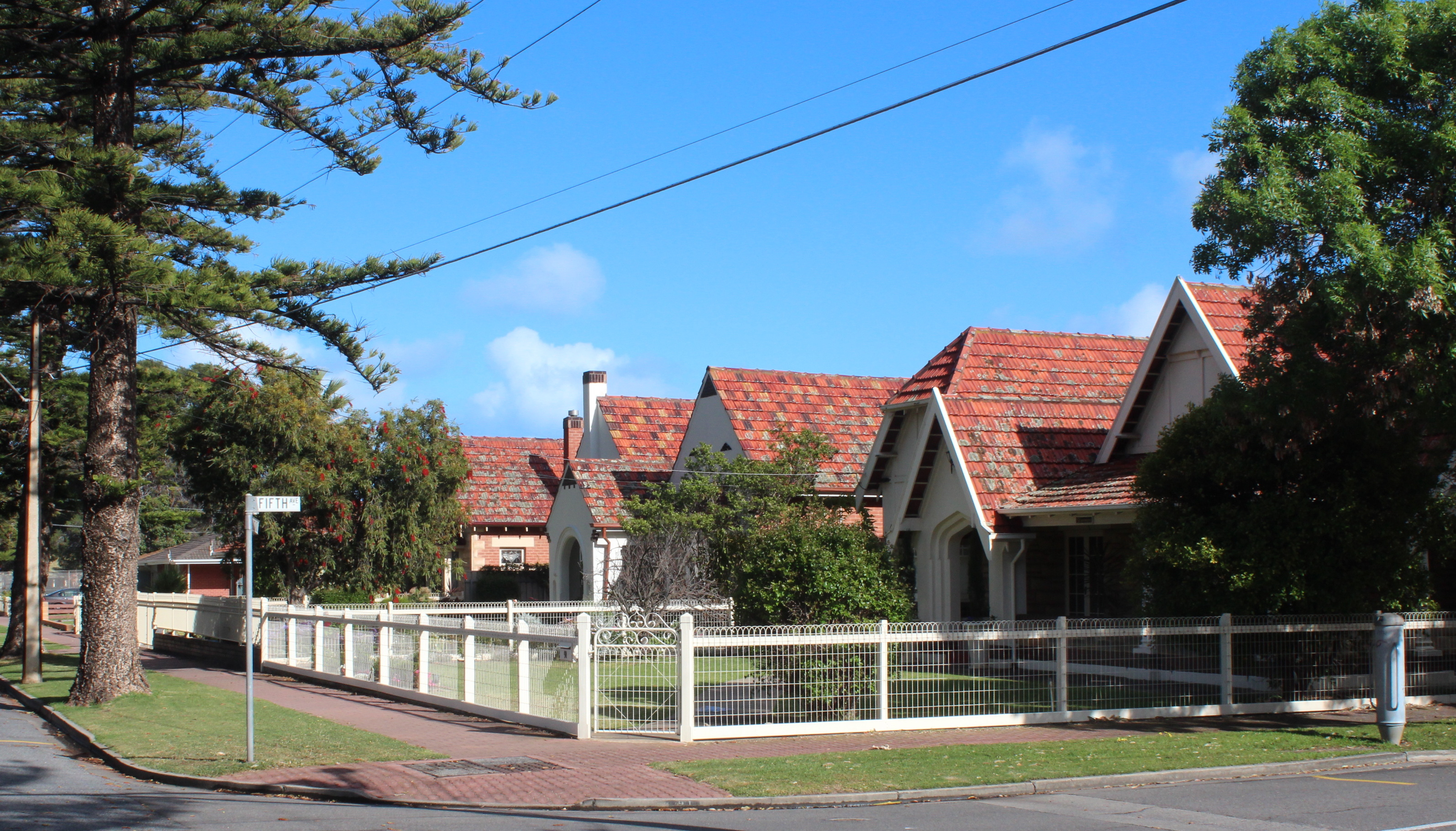 Tudor homes in Augusta Street in the suburb of Glenelg East Adelaide